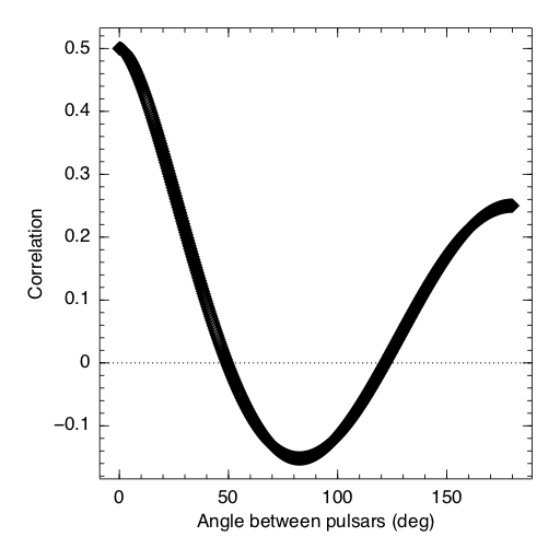 The Hellings-and-Downs curve - the predicted correlation between pulsars separated by a given angle in the presence of a gravitational wave background signal